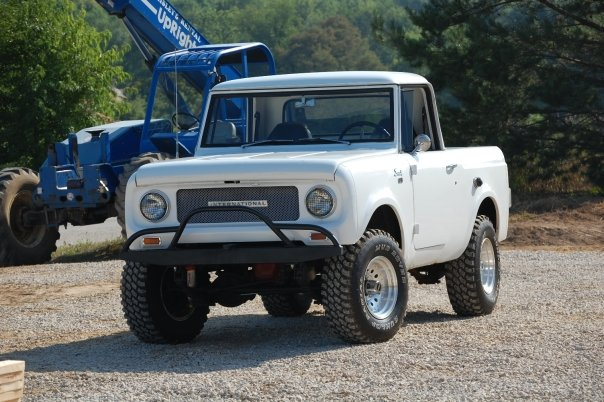 1966 International Scout 800.jpg